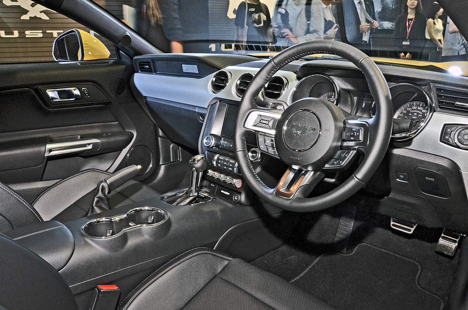 HKDM RHD Mustang EcoBoost's interior, front right